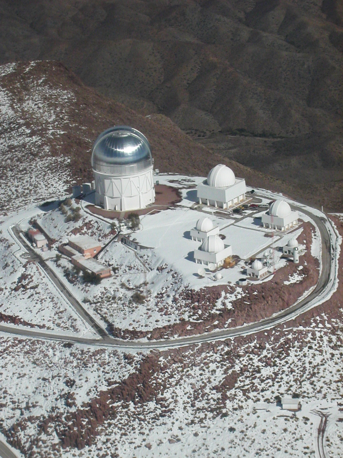 Taken by David Walker while flying cessna 172 over Cerro Tololo observatory (Photo taken by David Walker)